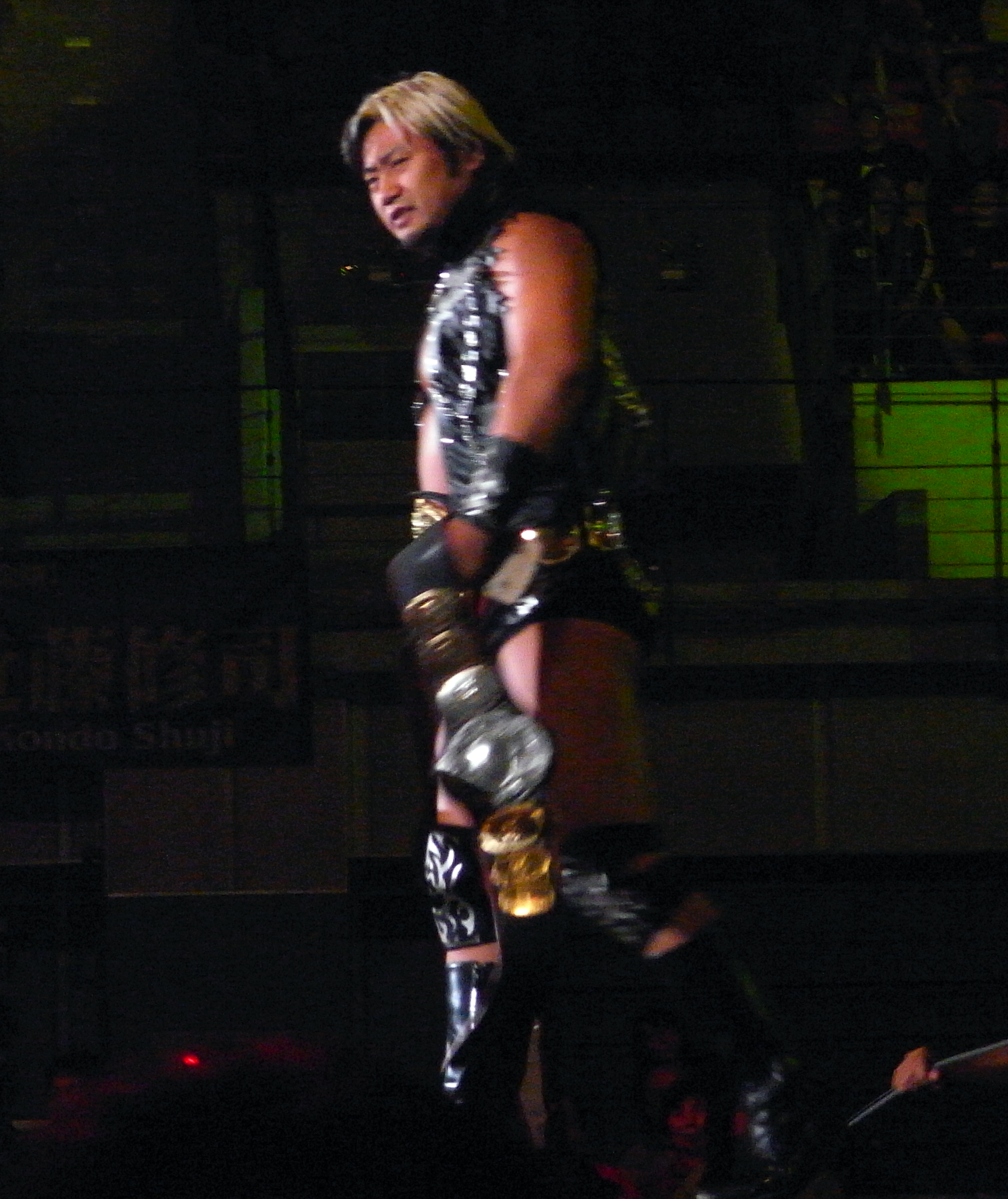 Kohei Suwama at AJPW "Pro-Wrestling Love in Taiwan 2010", National Taiwan University Gymnasium, Taipei.